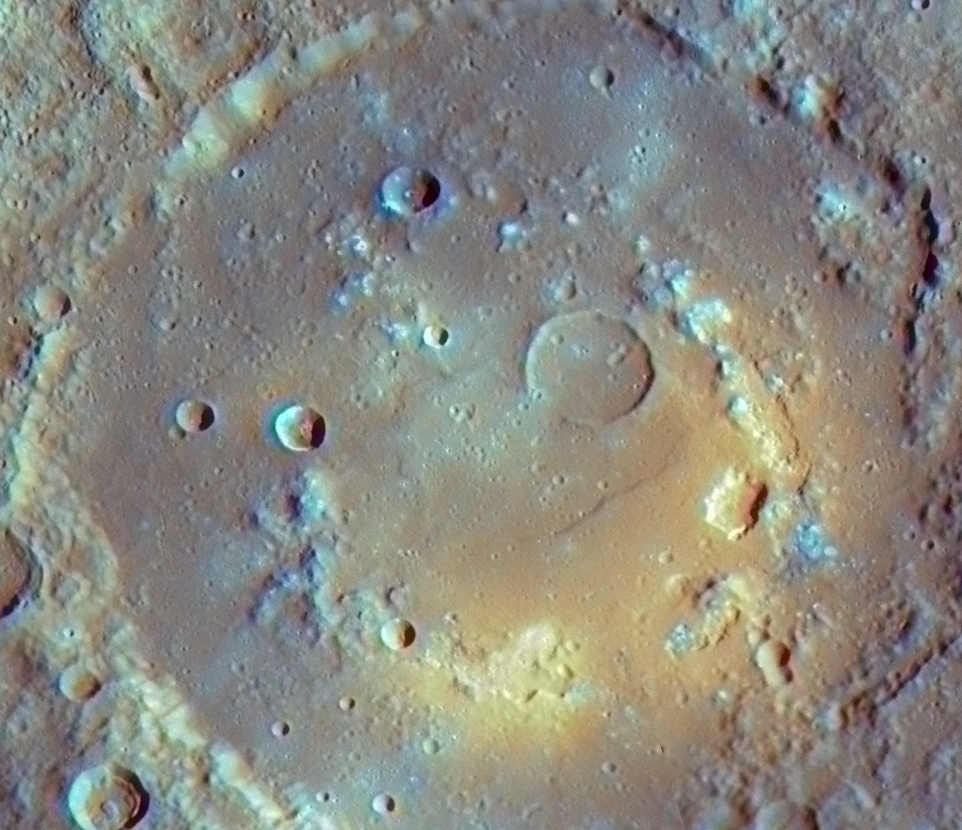 Date Acquired: October 6, 2008 Instrument: Wide Angle Camera (WAC) and Narrow Angle Camera (NAC) of the Mercury Dual Imaging System (MDIS) Resolution: 210 meters/pixel (0.13 miles/pixel) Scale: Praxiteles crater has a diameter of 182 kilometers (113 miles) Of Interest: MESSENGER's high-resolution images obtained during the mission's second Mercury flyby have revealed a number of irregularly shaped depressions on the floor of Praxiteles crater. These depressions are intriguing indications of possible past volcanic activity within this crater. View the previously released NAC image of Praxiteles for additional discussion. The image shown here is similar to one recently published in the 1 May issue of Science magazine. This image was created by first mosaicking together the highest-resolution NAC images available of Praxiteles (one of which is shown in that previous web release), to produce complete coverage of the crater. Independently, an enhanced-color image of Praxiteles was created by using images from all 11 WAC narrow-band color filters. (Visit last week's web release for more examples of enhanced-color images.) The WAC images provide important color information, but the WAC resolution is considerably less than that of the mosaicked NAC images. Thus, by overlaying a slightly transparent version of the WAC enhanced-color image on the high-resolution NAC mosaic, the high-resolution color view of Praxiteles crater shown here was produced. This overlay-color view helps associate the color features with the morphologic surface features. The fact that the irregularly shaped depressions on the floor of Praxiteles are associated with bright orange and yellow color features provides evidence that the depressions may be related to past volcanic activity in this area of Mercury. Credit: NASA/Johns Hopkins University Applied Physics Laboratory/Arizona State University/Carnegie Institution of Washington